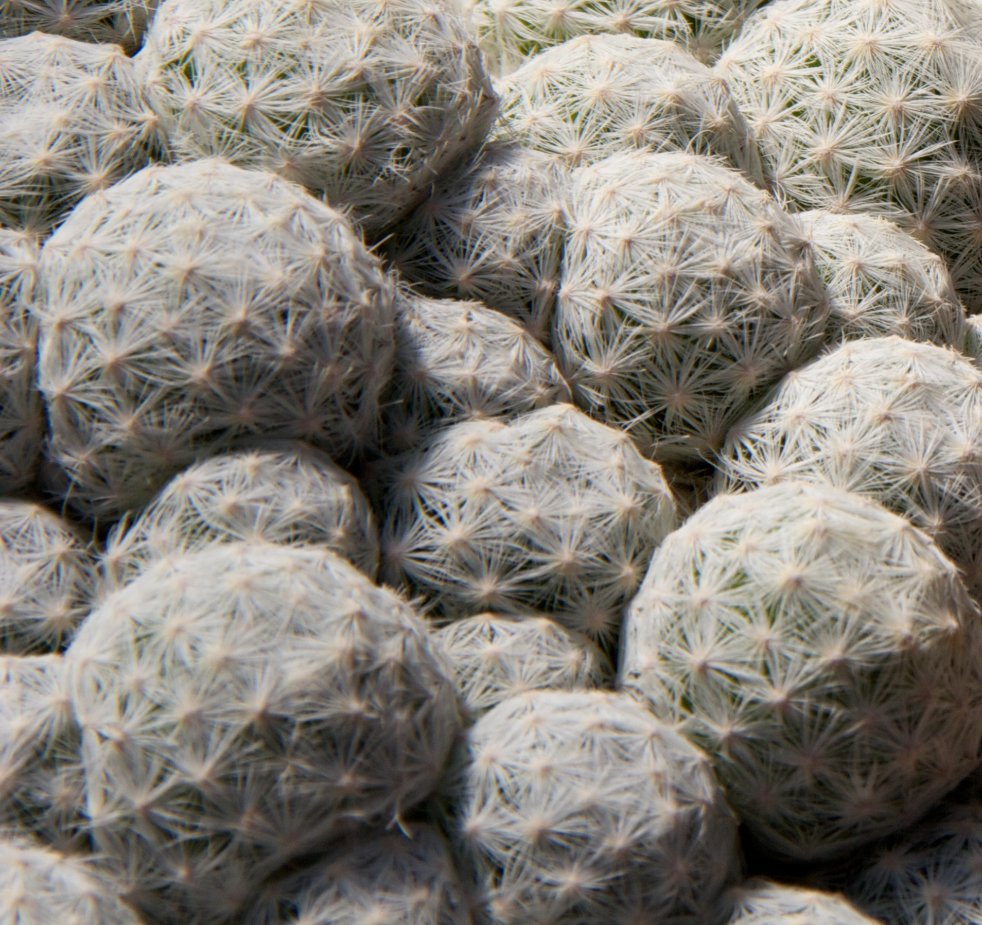 Mammillaria humboldtii. Mexico (Hidalgo). At Huntington Library, Art Collections and Botanical Gardens.